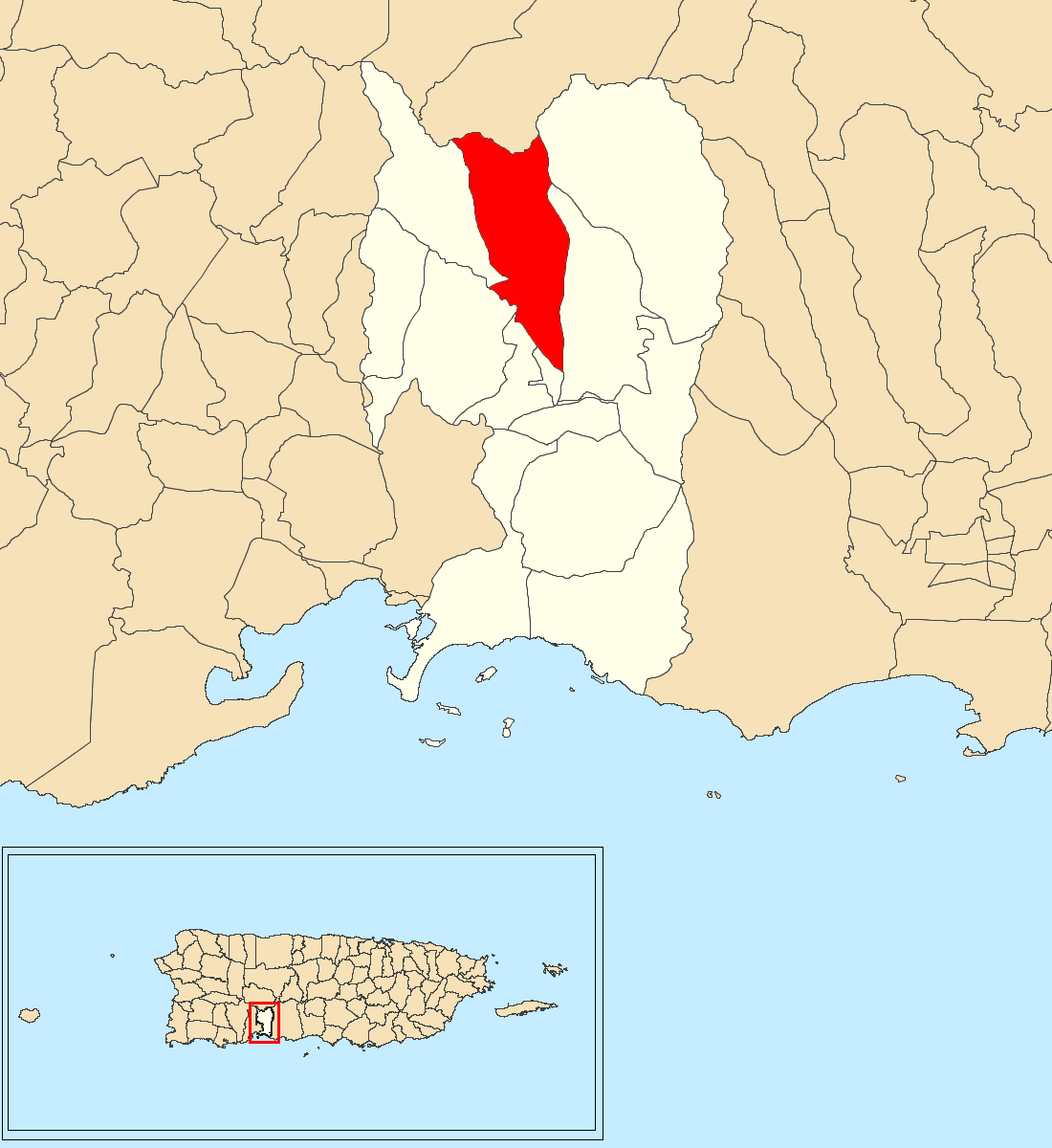 Jaguas, Peñuelas, Puerto Rico locator map